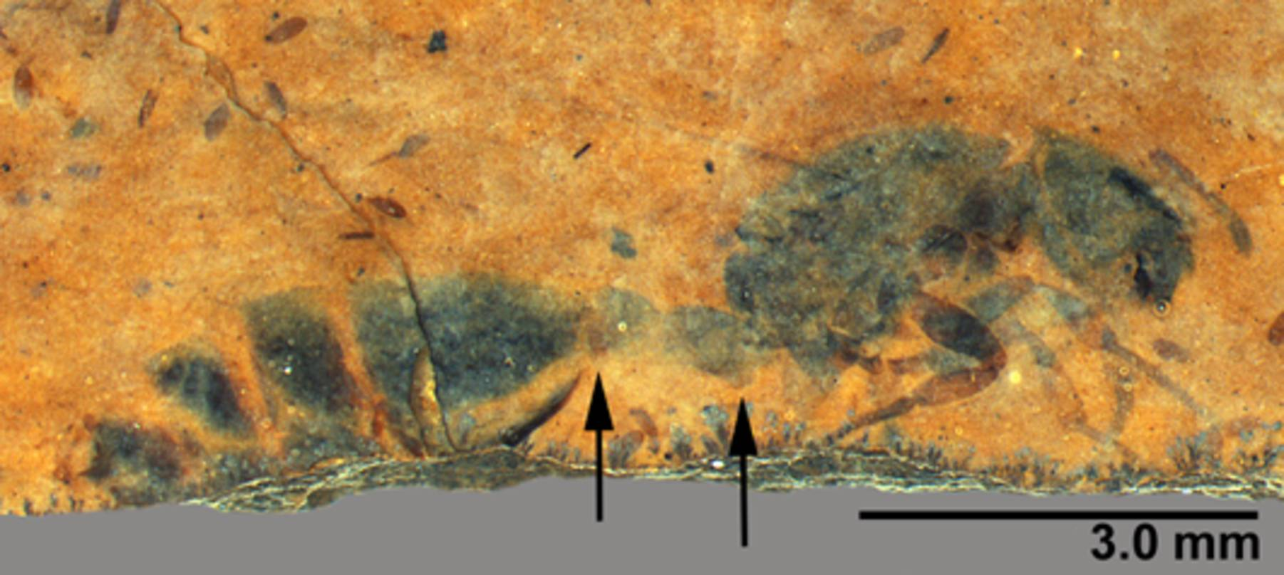 Profile view of the Crematogaster aurora queen Lutetian, Middle Eocene; Kishenehn Formation; Middle Fork of the Flathead River, Montana. United States. US Natural History Museum, Washington D.C., United States; specimen USNM609595